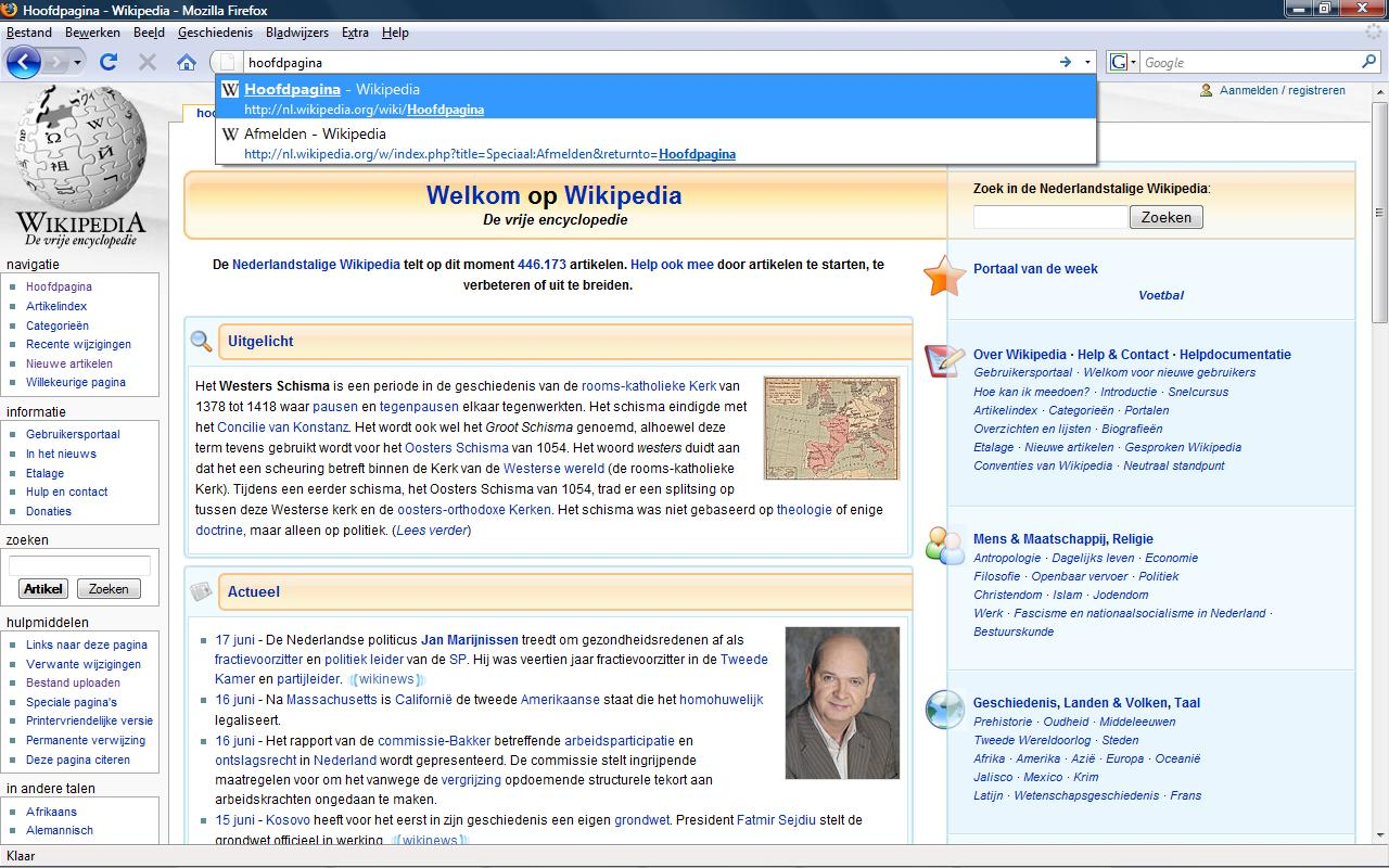 Screenshot of Firefox 3 showing the Dutch wikipedia-main page